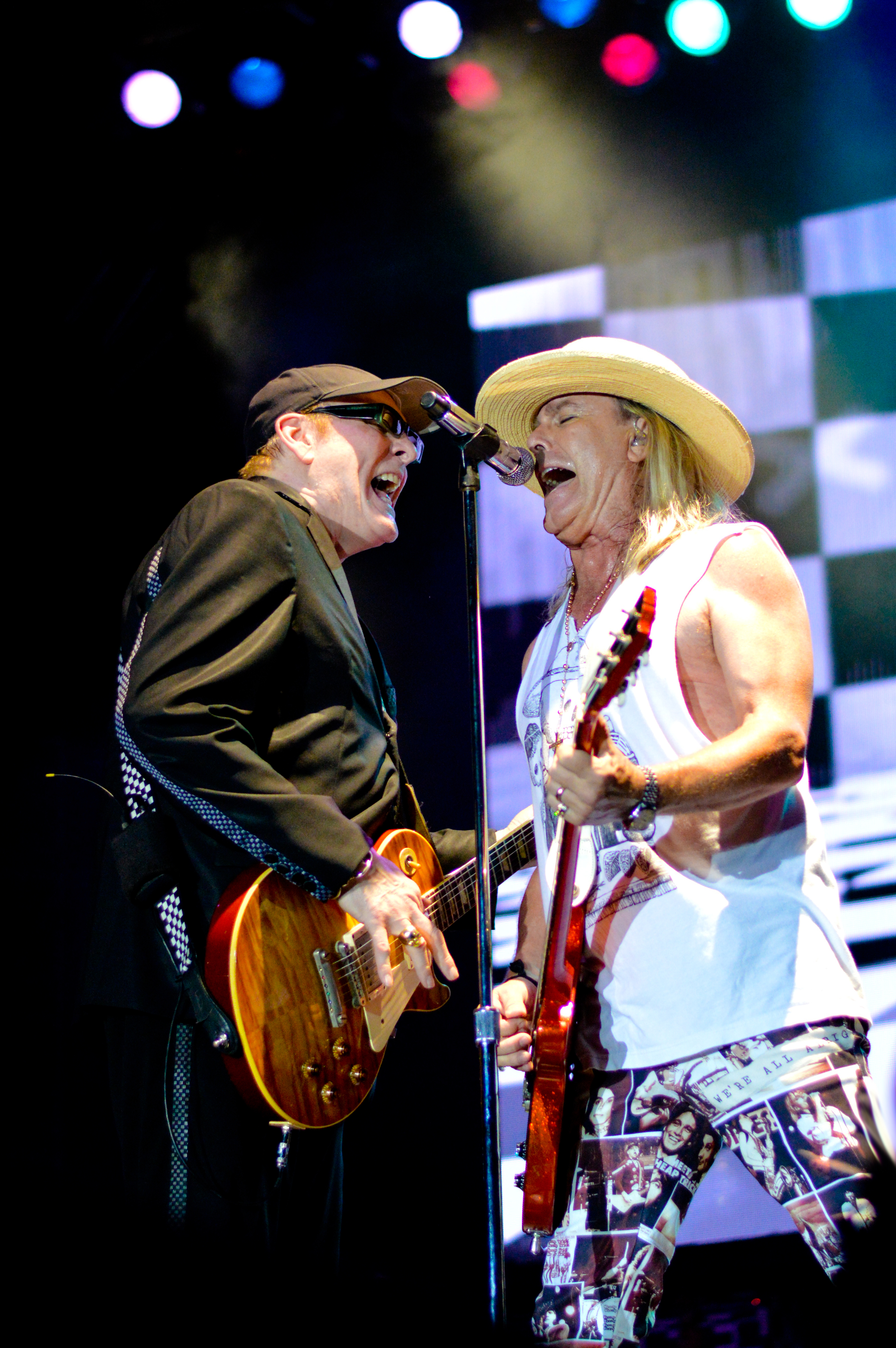 Cheap Trick's Rick Nielsen and Robin Zander perform at Rockfest 80's music festival on Nov. 4, 2017 in Pembroke Pines, Florida.